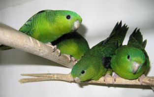 Barred Parakeet (Bolborhynchus lineola)